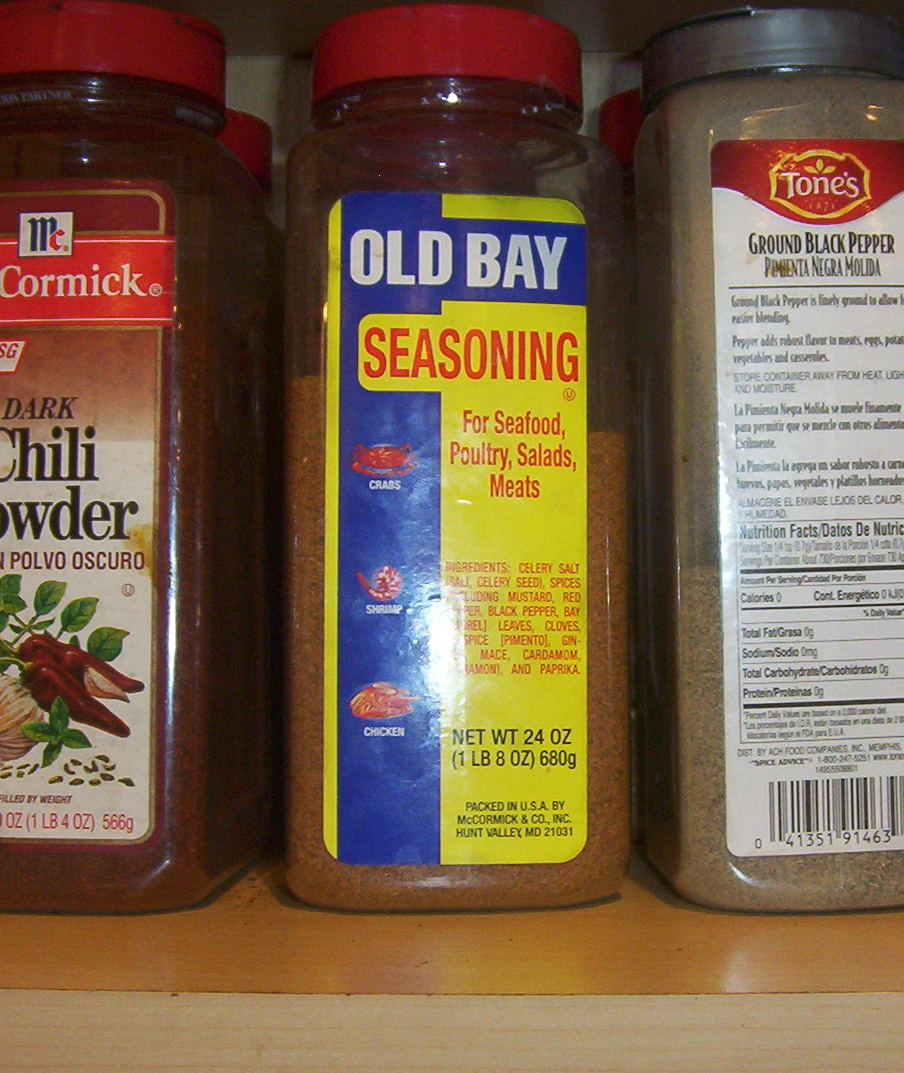 modern plastic container of old bay seasoning